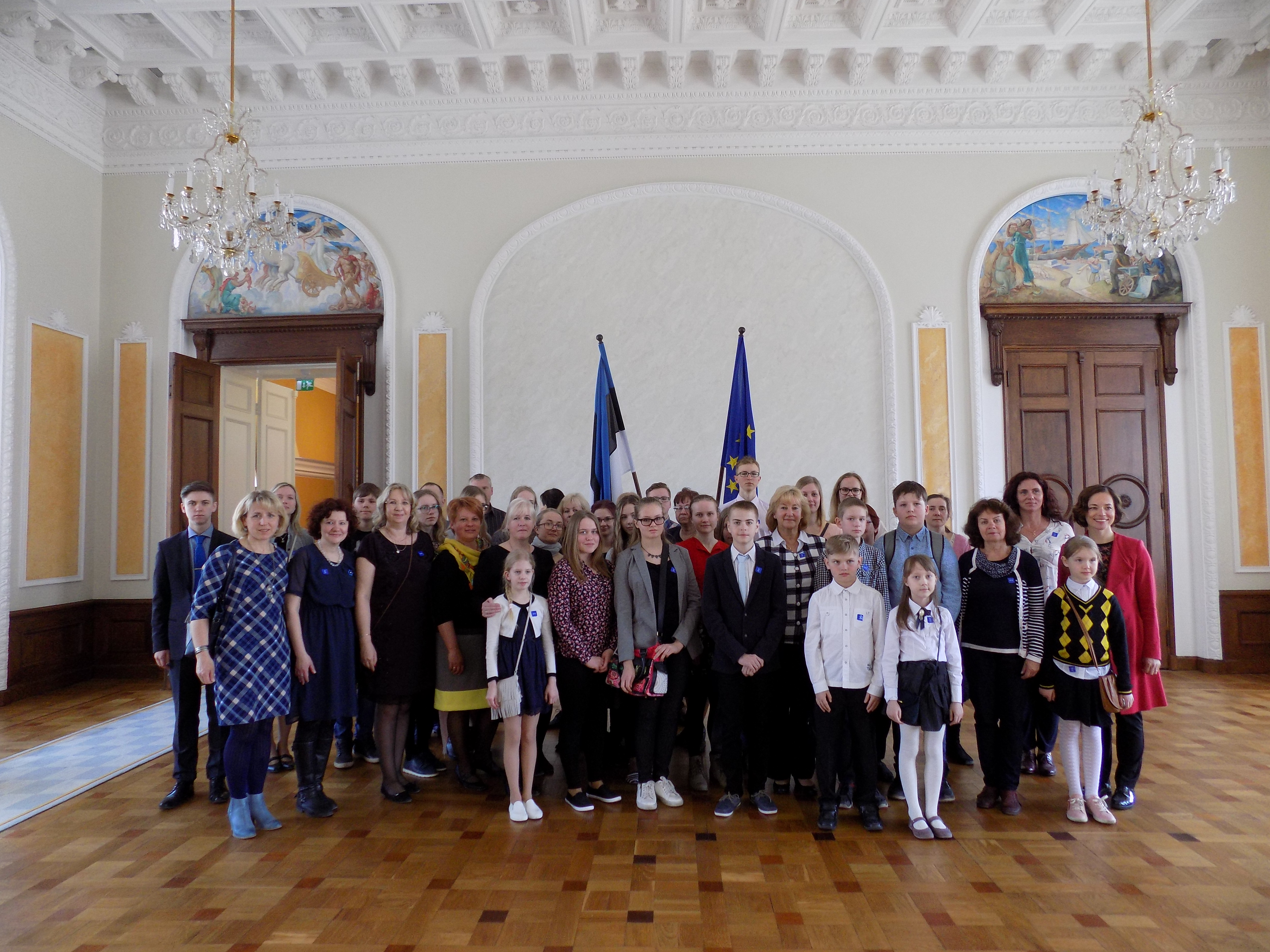 Tänuüritus